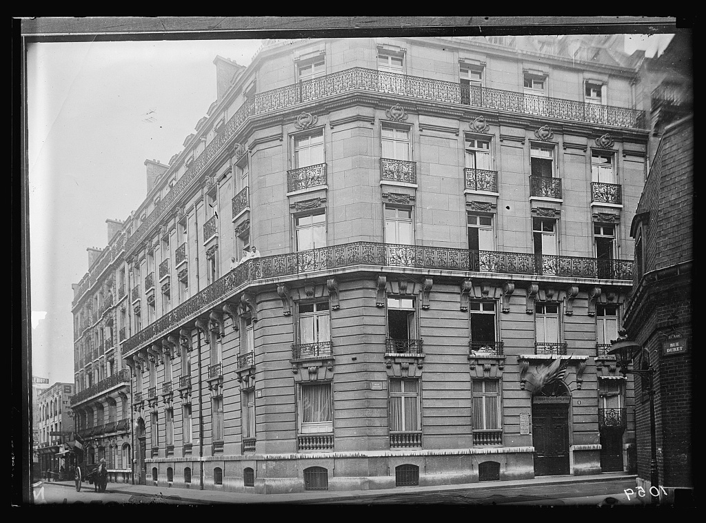 The exterior of Dr. Blake's hospital in Paris during the First World War (1917).